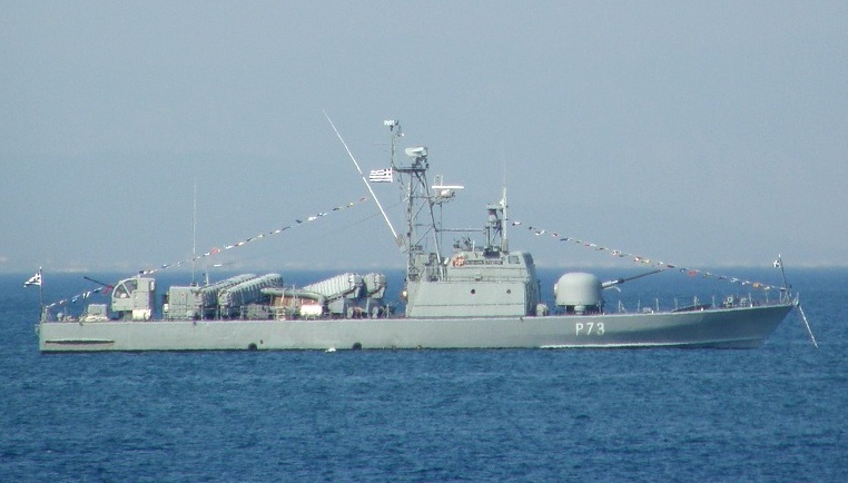 Hellenic Navy Combattante IIa class HS Pezopoulos, P-73 in Phaleron Bay. She was previously the S-148 Tiger class Fast Attack Boat Storch (P-6152) of the German Navy.